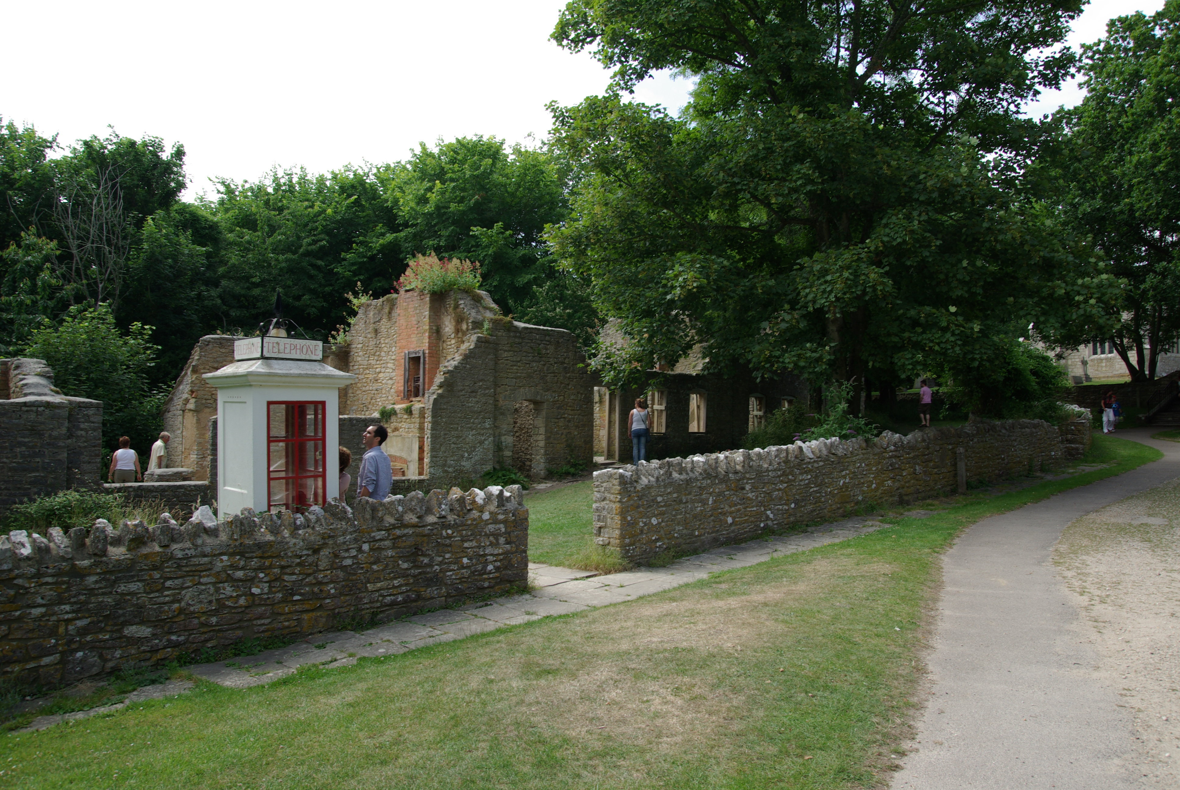 Houses of the Tyneham village - The shepherds house and the post office/shop